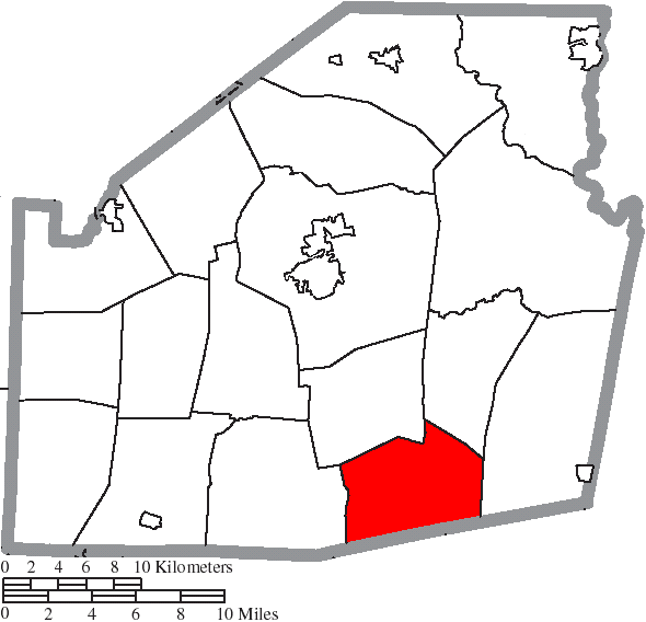 Map of the municipal and township boundaries of Highland County, Ohio, United States, as of the 2000 census, with the location of Jackson Township highlighted. Township borders are shown only in unincorporated areas in order to differentiate incorporated and unincorporated areas more clearly.